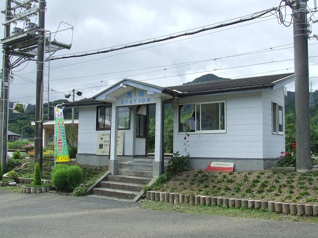 Kaizaki Station on Nippo Main Line